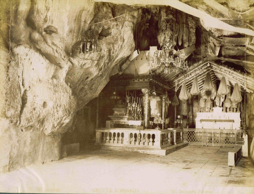 Giuseppe Incorpora (1834-1914), "Palermo. Saint Rosalia's cave". Catalogue # 221.